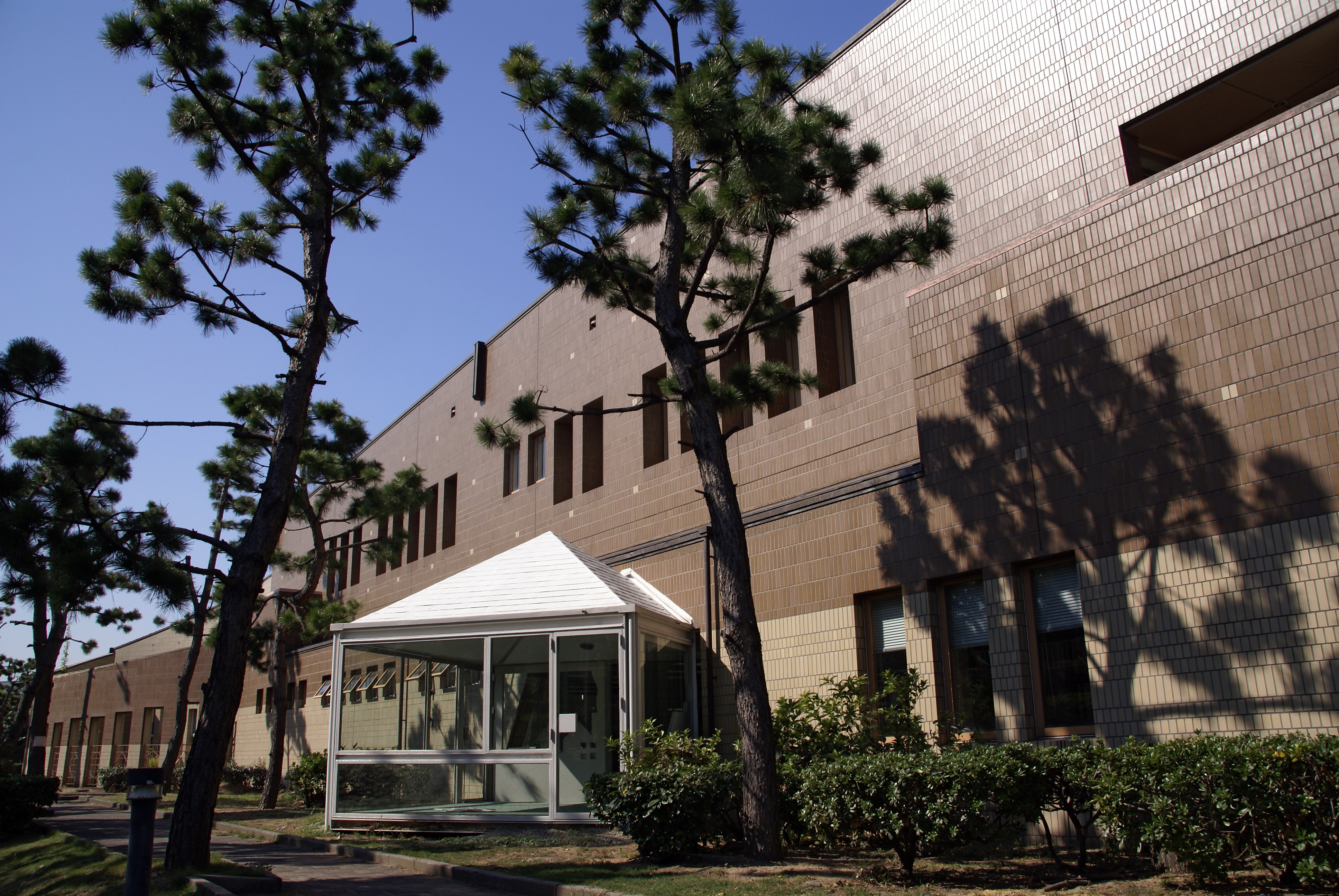 Ashiya City Library in Ashiya, Hyogo prefecture, Japan